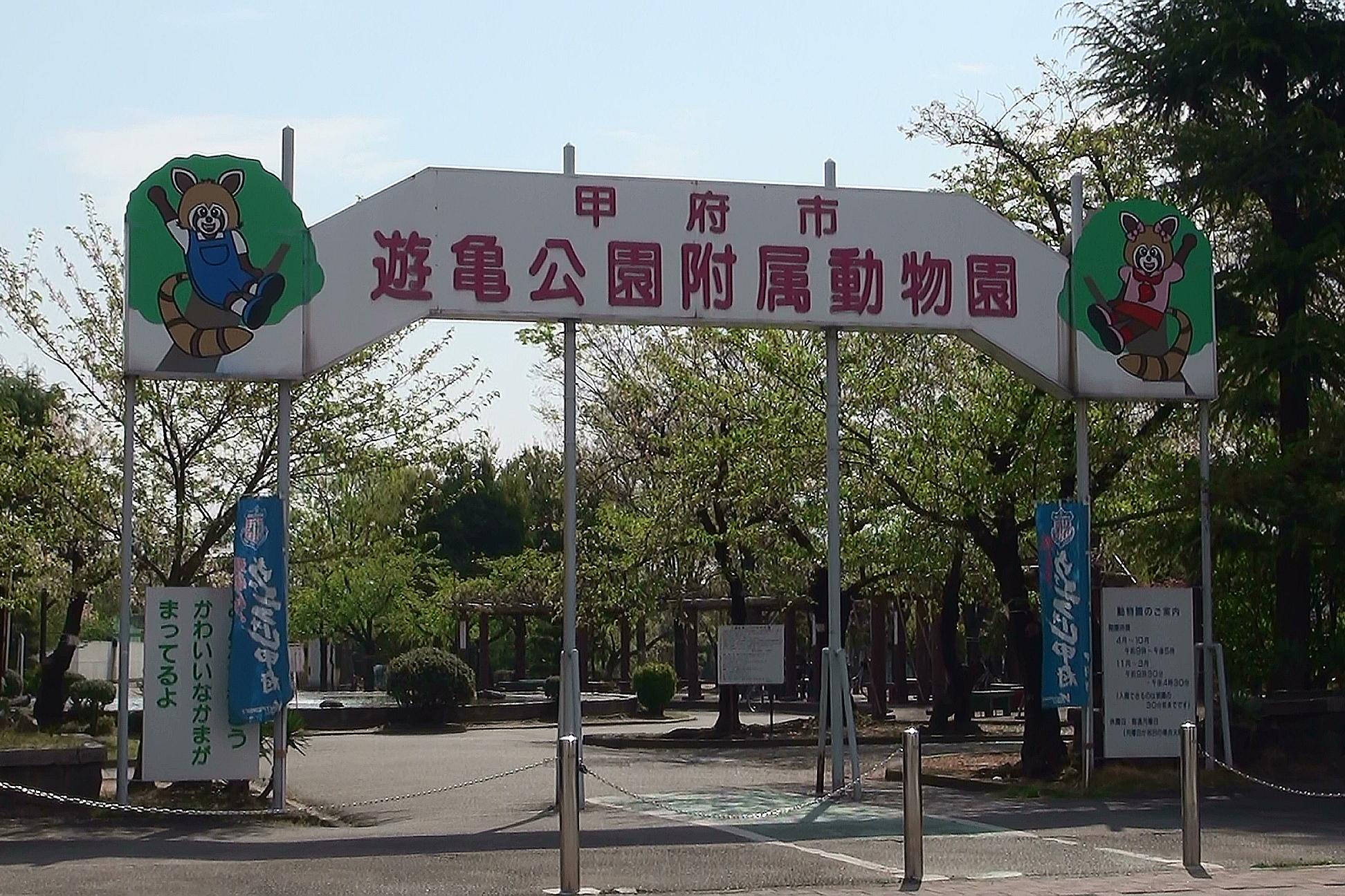 Kofu Yuki-park and Yuki-zoo entrance